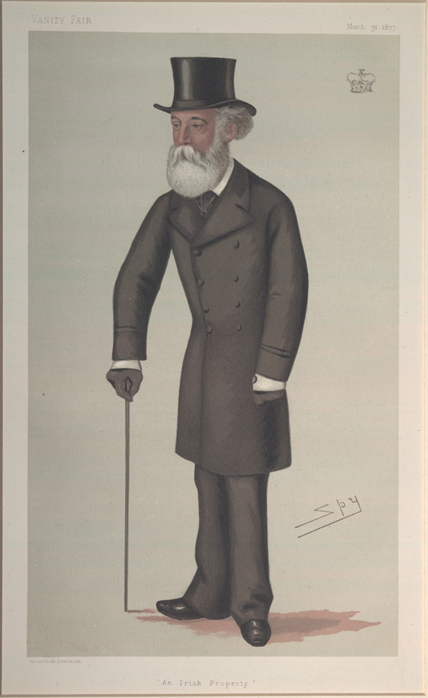 Statesmen No.247: Caricature of The Marquess of Headfort. Caption reads: "An Irish Property"